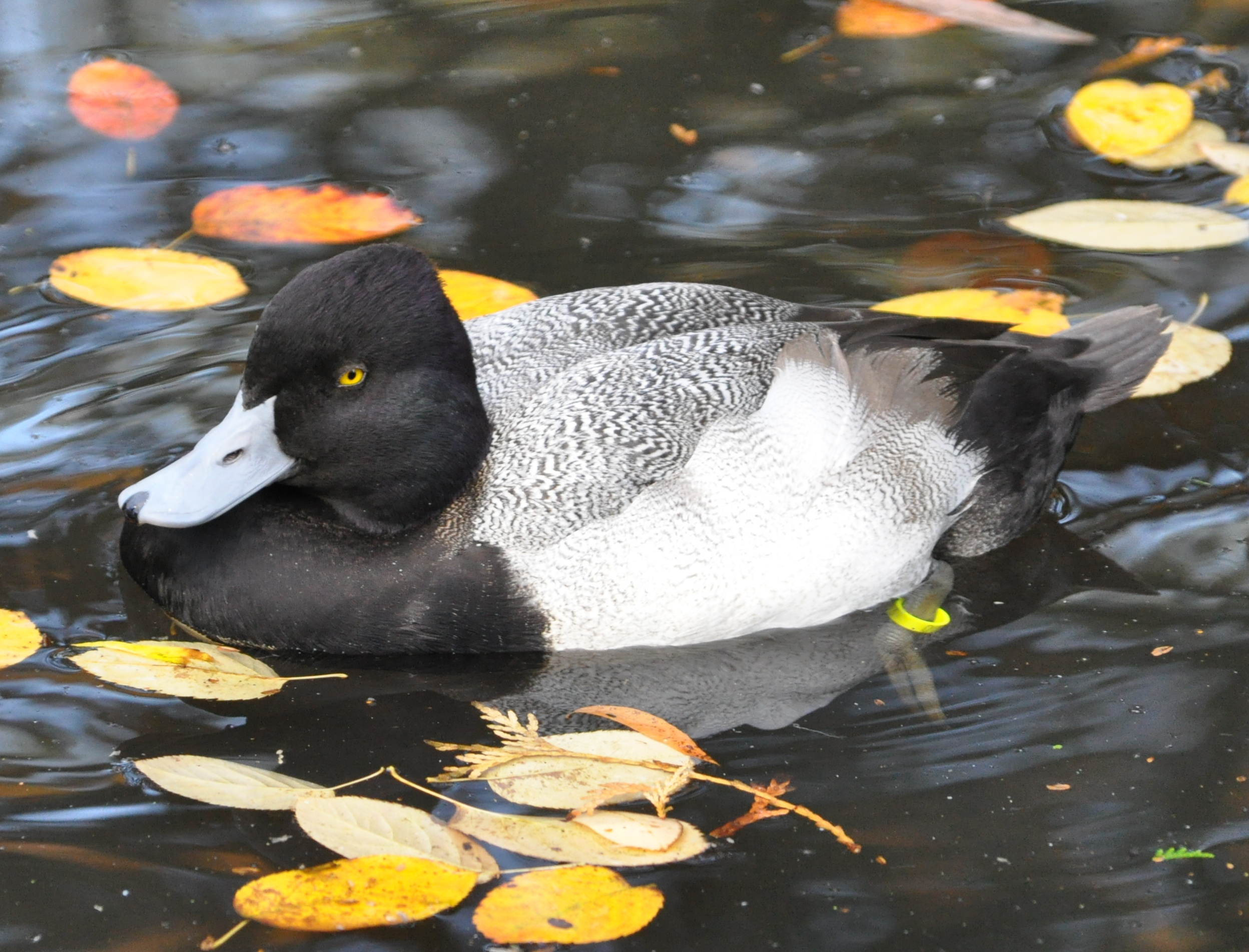 Lesser Scaup(Aythya affinis) in the Walsrode Bird Park, Germany.